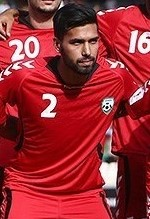 Abassin Alikhil before match with Japan, 2018 FIFA World Cup qualification, Azadi Stadium, Tehran